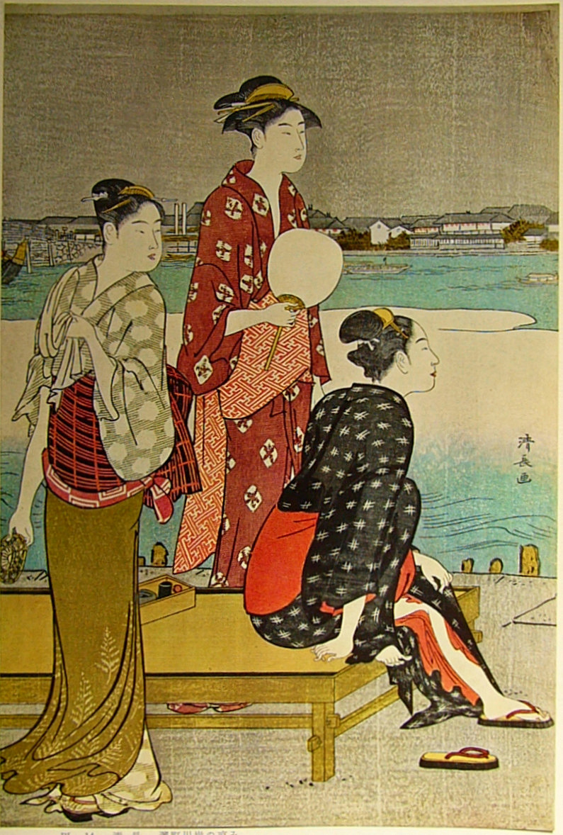 Torii Kiyonaga(1752-1817) Cooling on Riverside (Hamaya). Woodblockprint on paper 37.7 x26.4cm